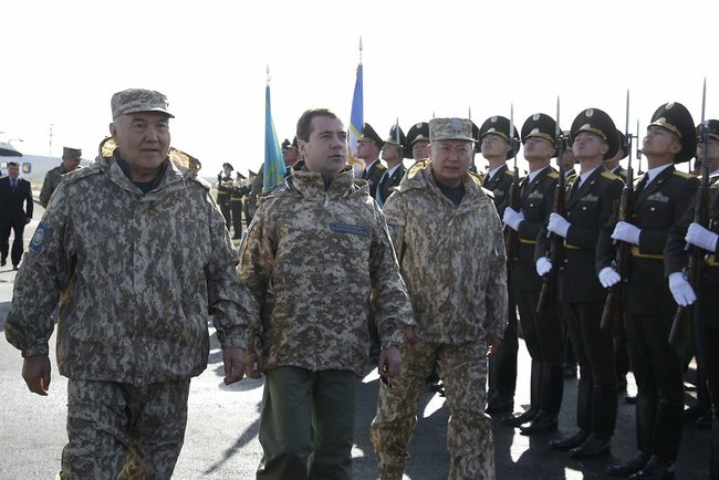 MATYBULAK TRAINING GROUND, KAZAKHSTAN. With President of Kazakhstan Nursultan Nazarbayev and President of Kyrgyzstan Kurmanbek Bakiev.